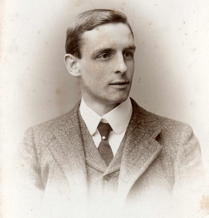 Malcolm Elliot Hodgson, owner of Scalby Manor circa 1905